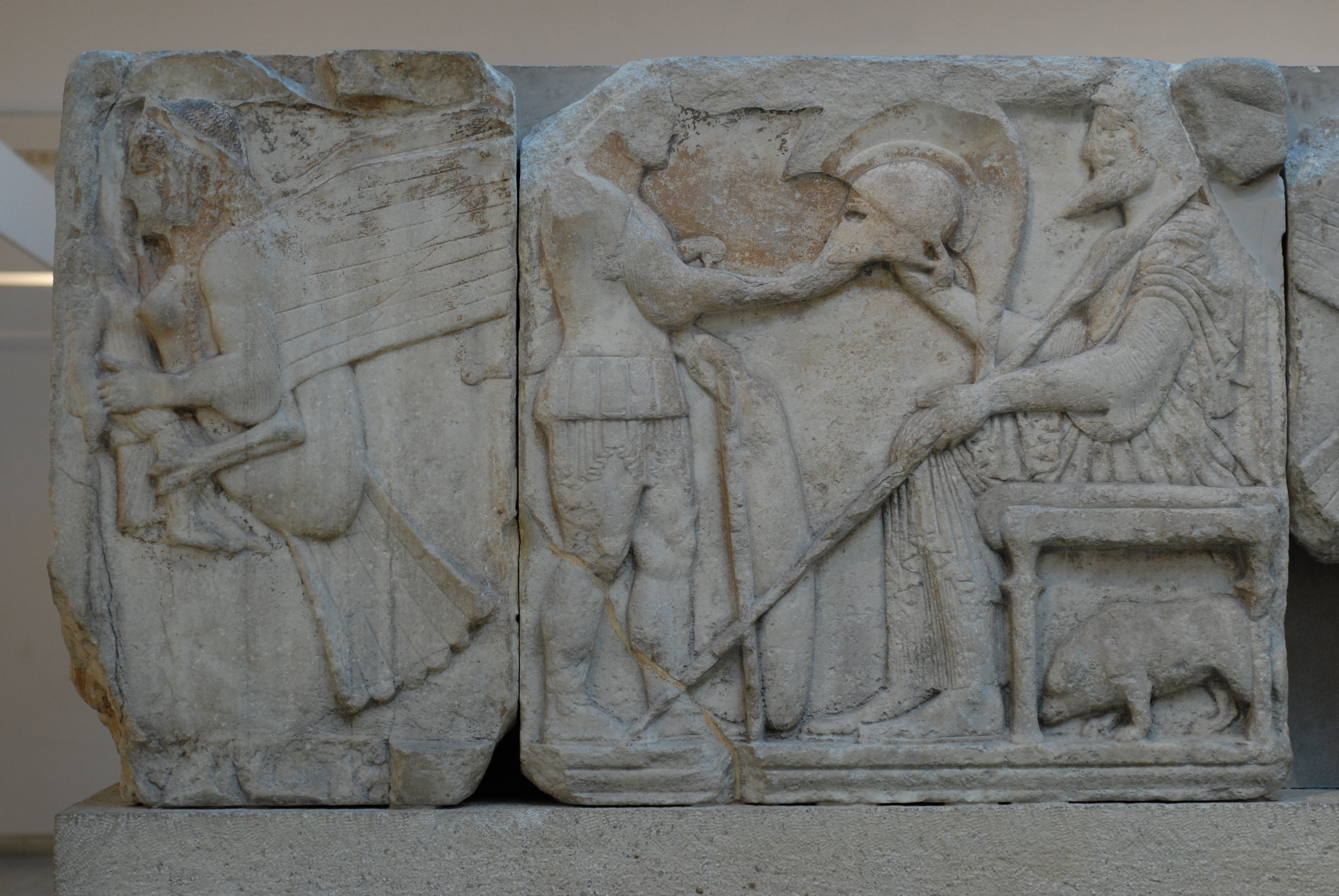 detail from the Harpy tomb, BM